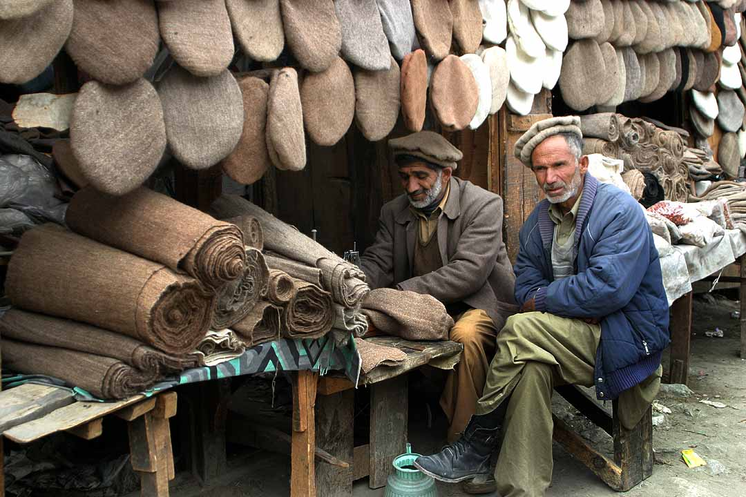 Northern Pakistan, pakol hats, craftmen